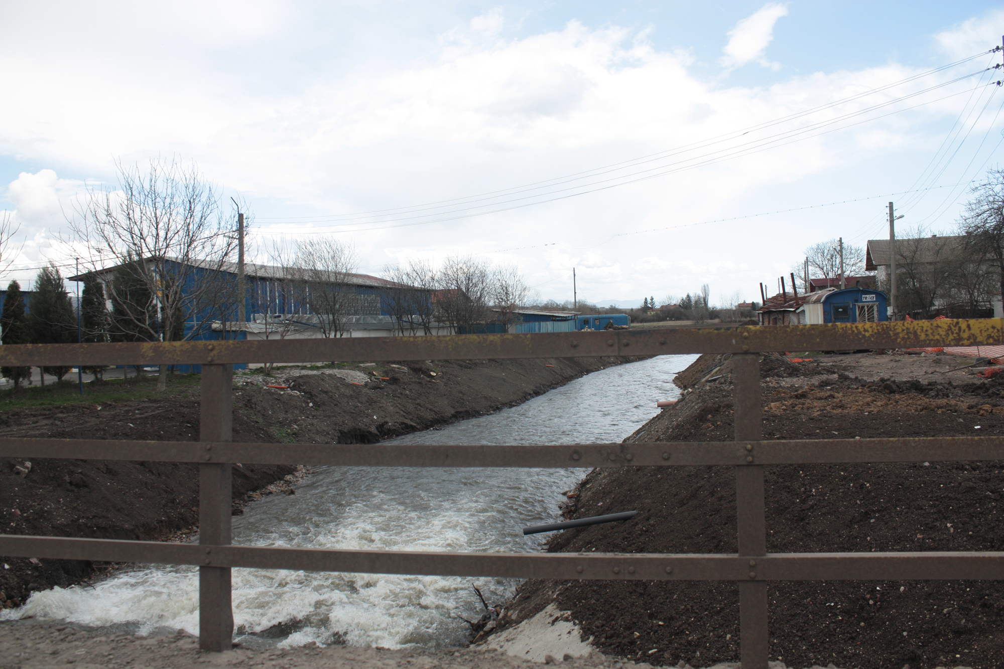 River Blato in Kostinbrod, a shot from the bridge